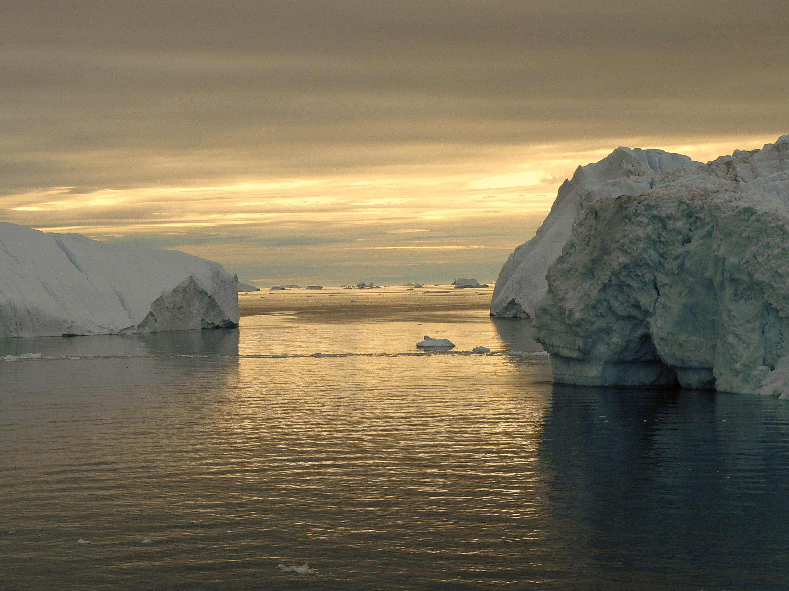 Ilulissat Icefjord 3